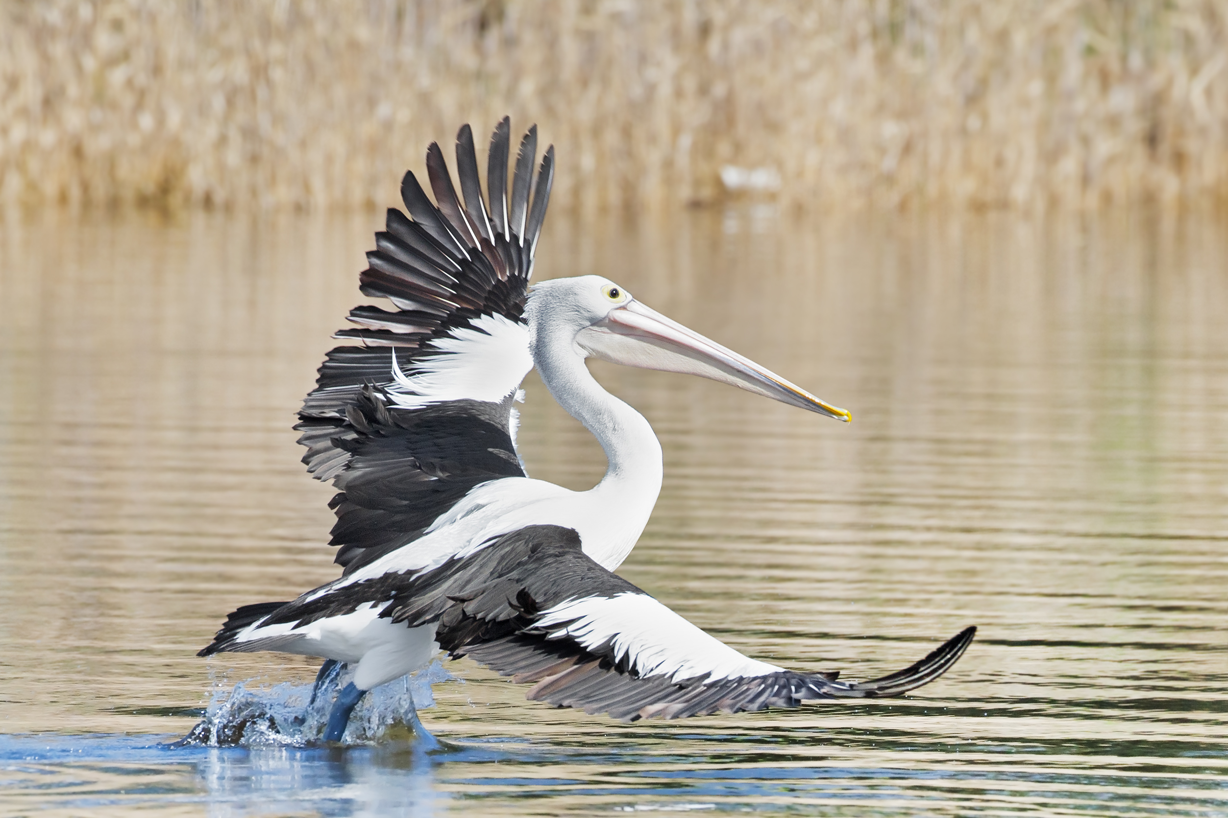 Australian Pelican (Pelecanus conspicillatus) about to pounce on a fish, Austin's Ferry, Tasmania, Australia.